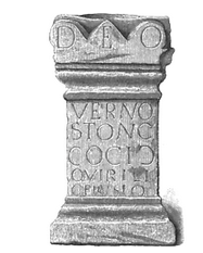 Sandstonealtar dedicated from Virilis, a German, to Vernostonus Cocidius, AD 43-410, found 1784, o.t. left bank of the Derwent in Ebchester/Vindomora (GB).